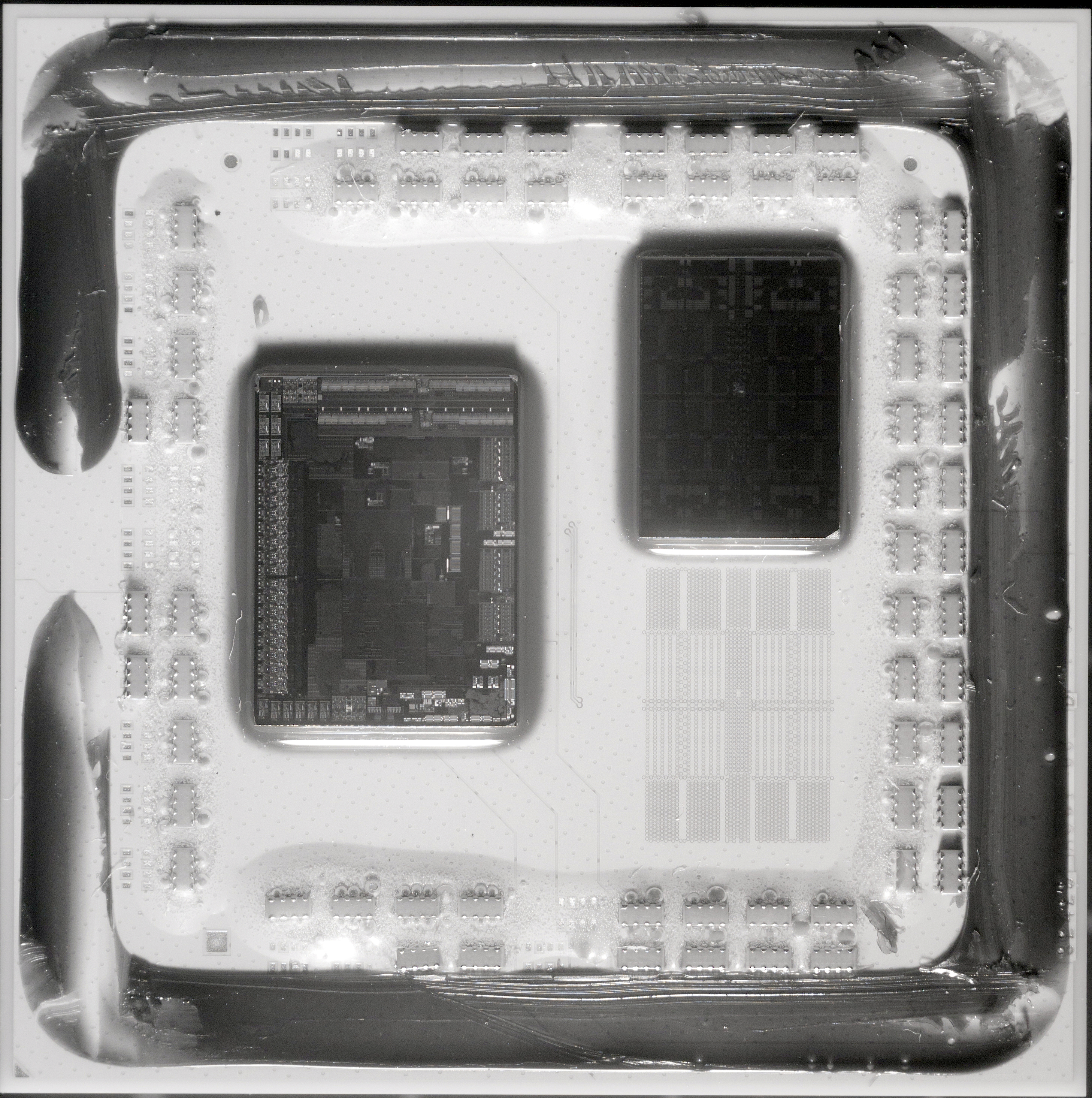 AMD Ryzen 5 3600 (Matisse), package | infrared, showing the 7nm Zen 2 die ("chiplet") at top-right and the 14nm I/O die on the left. Filter: silicon IR-passfilter (source: AMD Istanbul) Camera: Sony NEX-5T (16.1MP APS-C sensor)(full spectrum) Objectiv: Meike 85mm 2.8 Macro 1.50:1 Lightsource: Philips 150W PAR38E Infrared